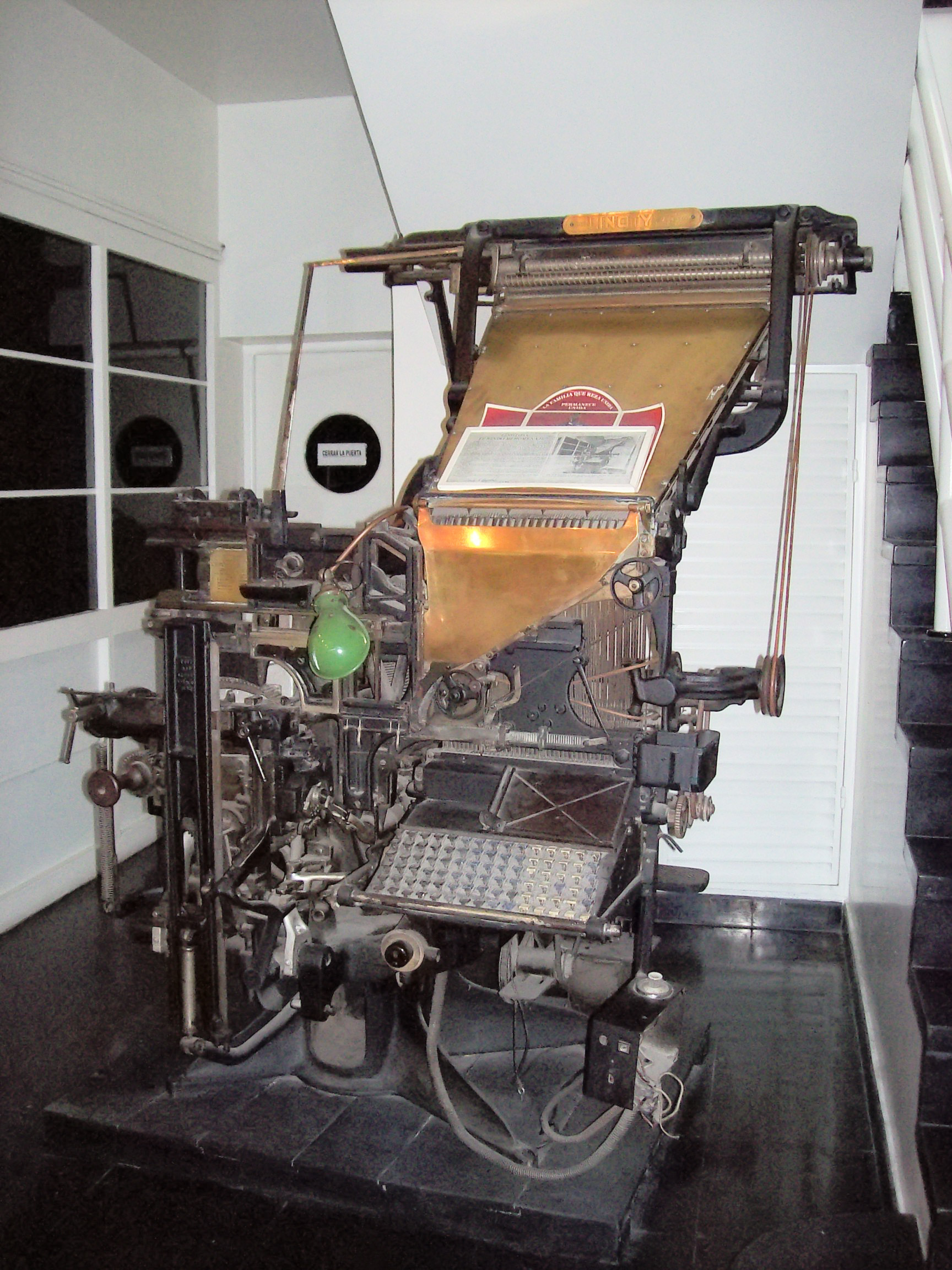 Linotype machine used in the early days of Diario "El Norte". San Nicolás, Buenos Aires, Argentina.